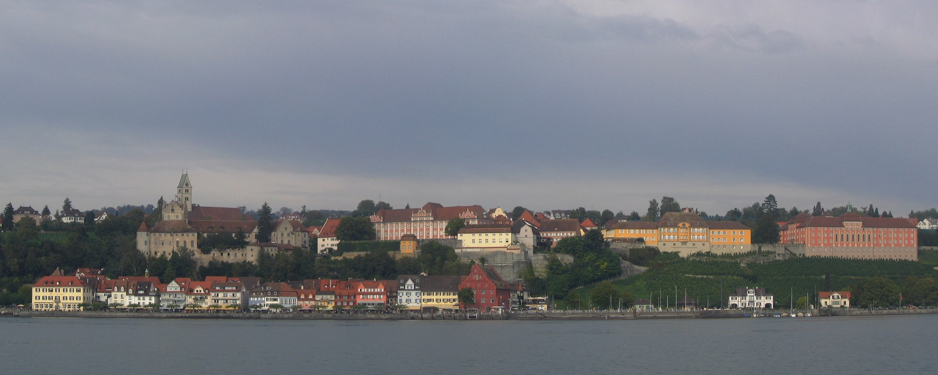 Meersburg seen from the Bodensee